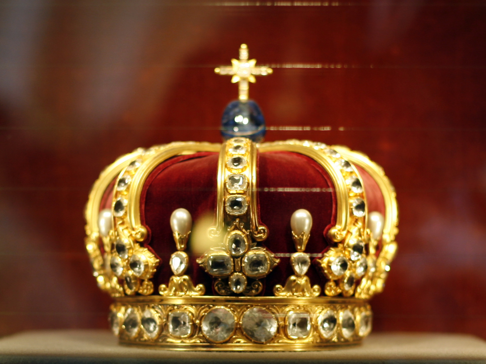 Prussian King´s Crown (Hohenzollern Castle Collection)